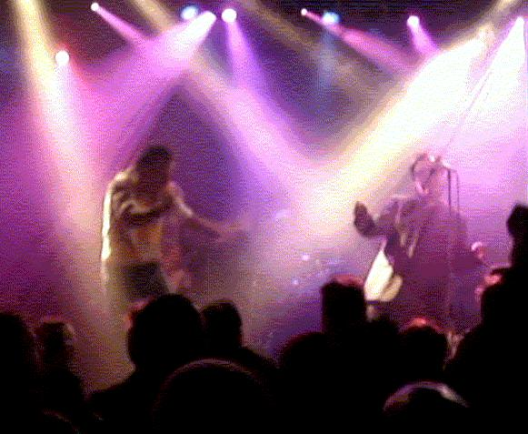 The English band Blue Aeroplanes - live performance in 2006.